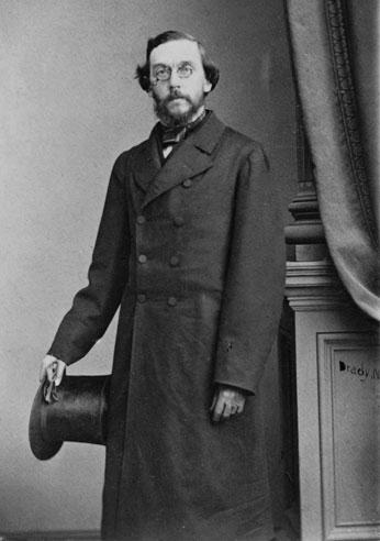 Henry Shelton Sanford.